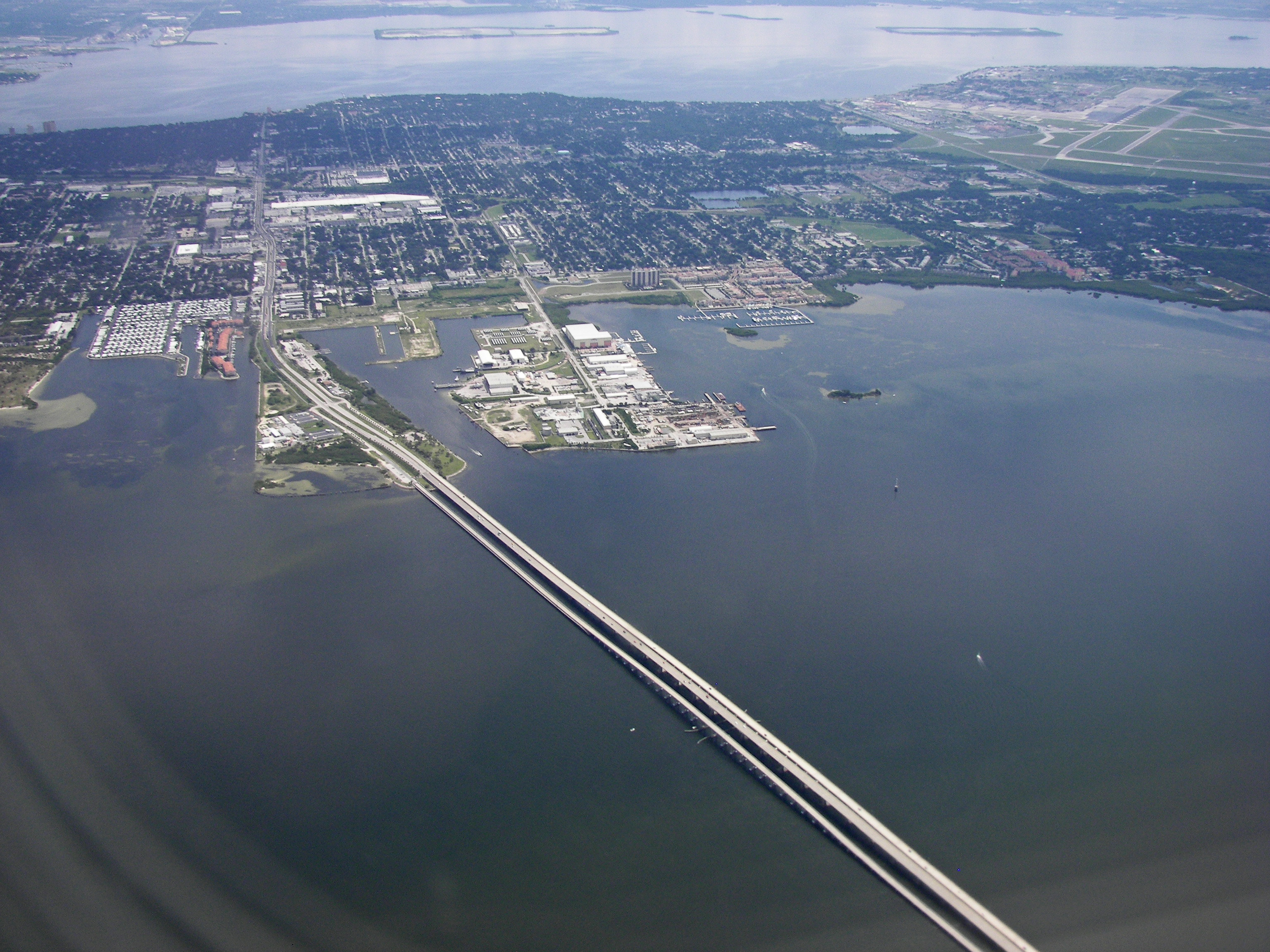 Aerial view of South Tampa, Florida including MacDill Air Force Base and the Gandy bridge.